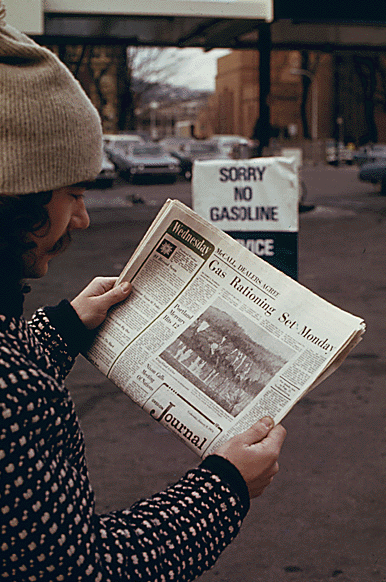 GAS RATIONING SYSTEM (ODD-EVEN PLAN) IS ANNOUNCED IN AN AFTERNOON NEWSPAPER BEING READ AT A SERVICE STATION WITH A SIGN IN THE BACKGROUND STATING NO GAS IS AVAILABLE.